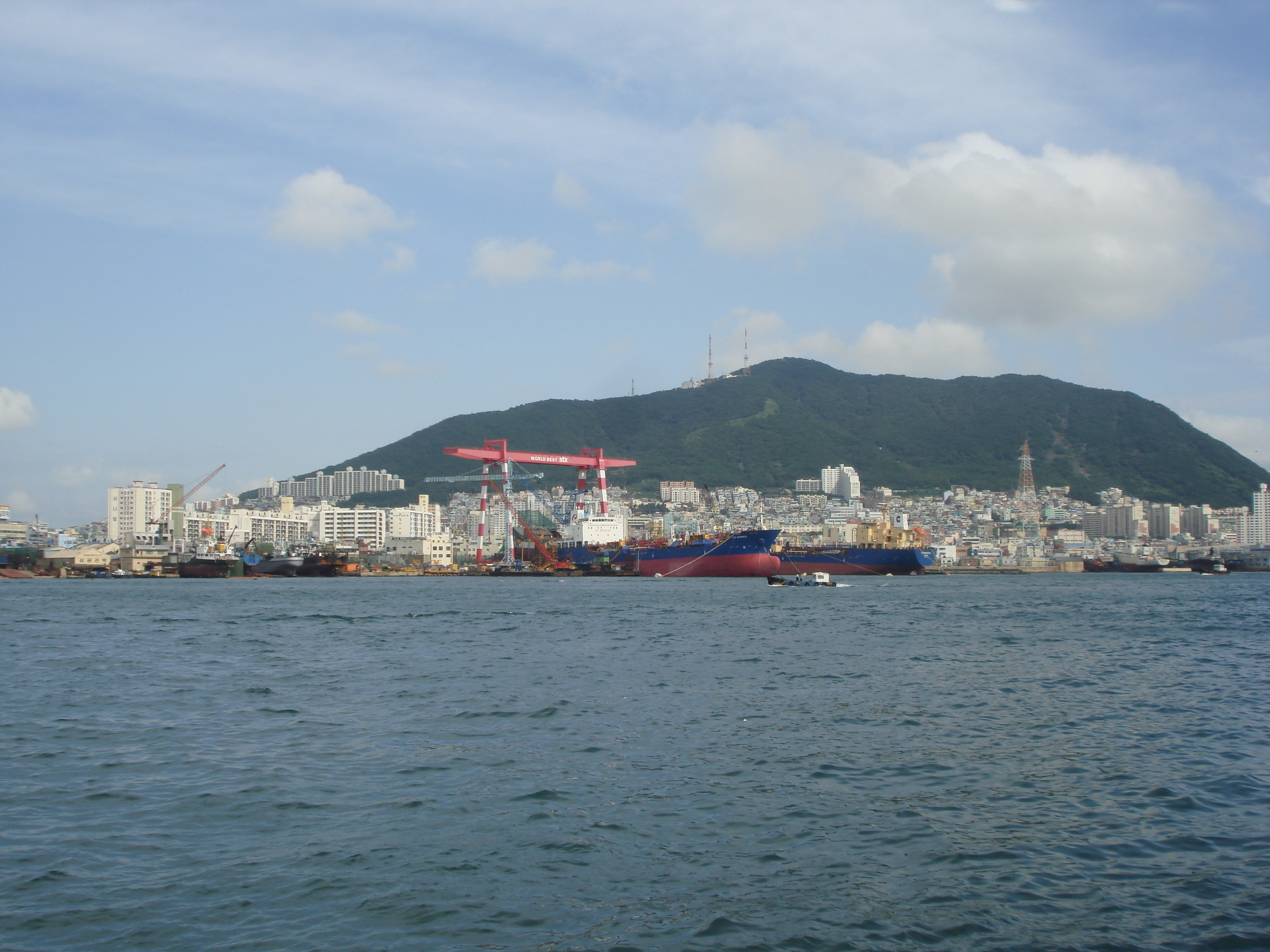 West coast of Yeongdo-gu, picture taken from the coast of Seo-gu